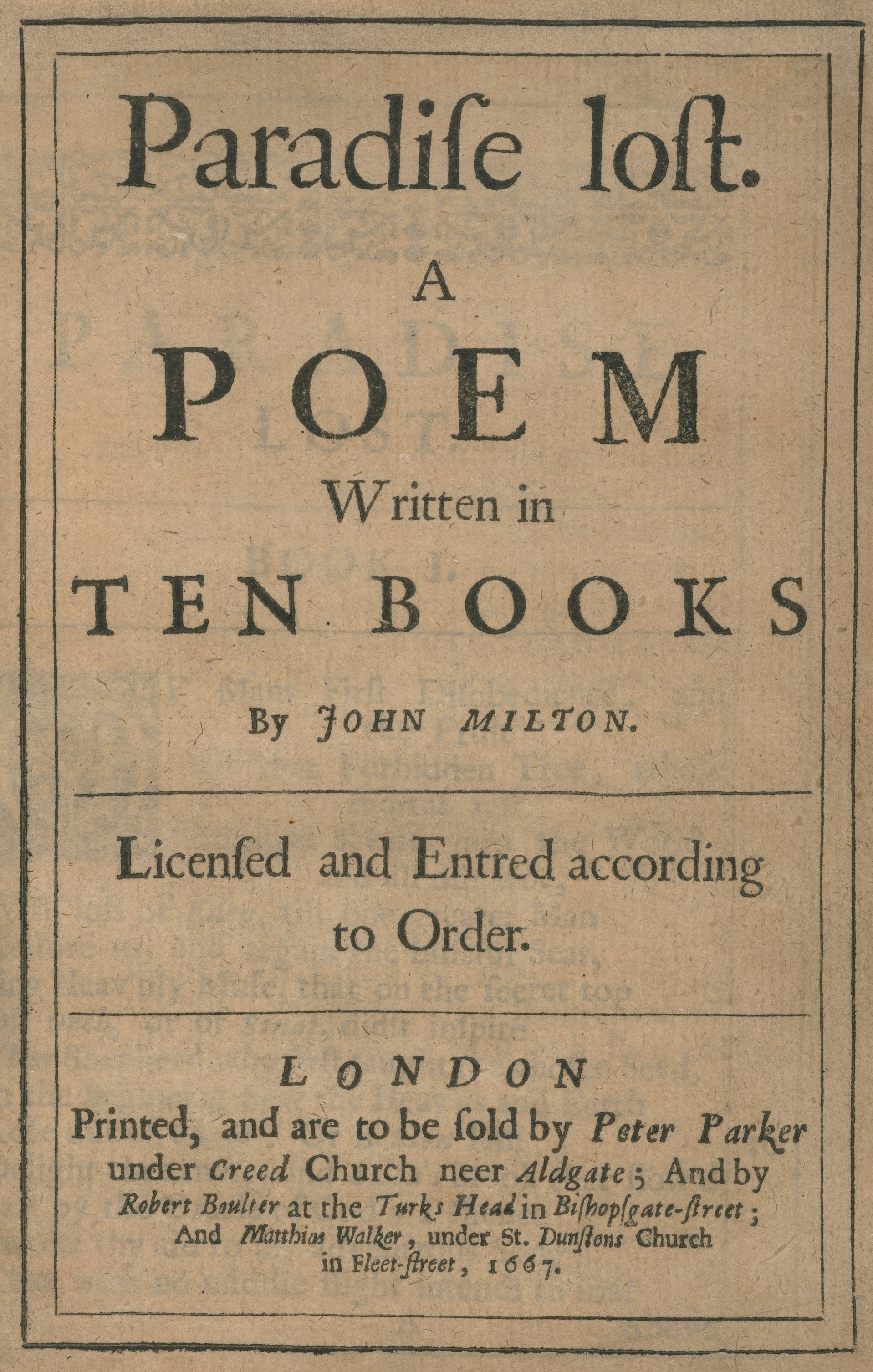 Title page of Paradise Lost, London: 1667, by John Milton (1608-1674). EC65.M6427P.1667aa, Houghton Library, Harvard University